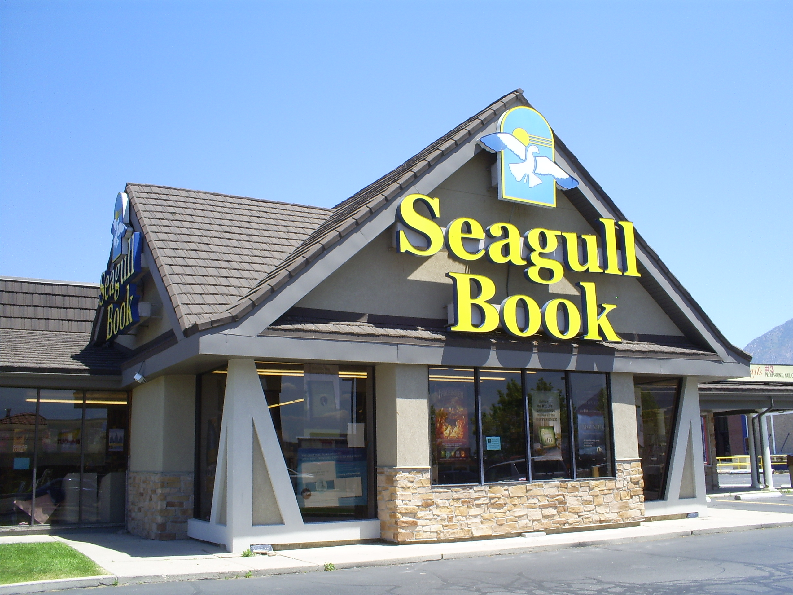 Seagull Book store, located at 331 East University Parkway, Orem, Utah.